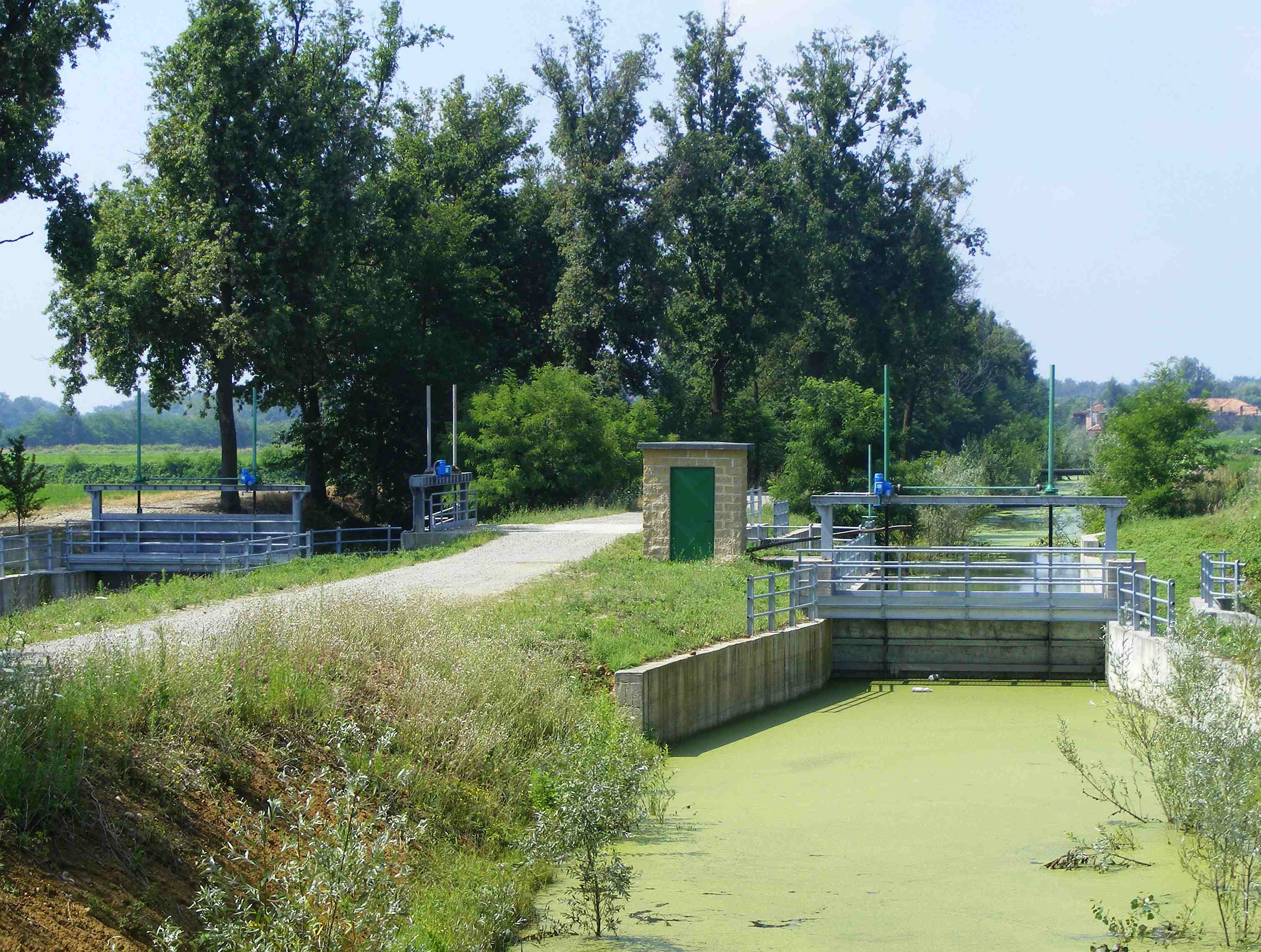 Canal Naviletto della Mandria near Salussola (BI, Italy)